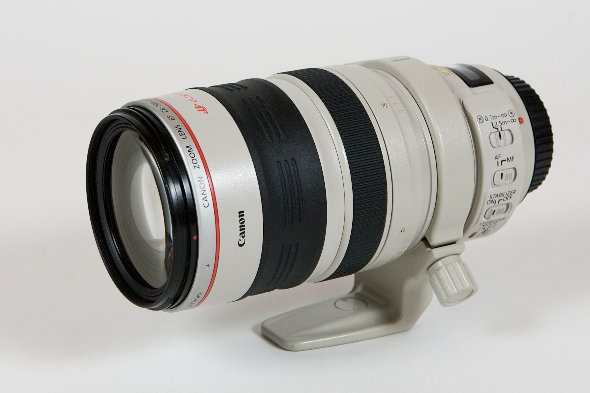 "Canon EF 28-300 f3.5-5.6 L IS" lens with tripod mount.